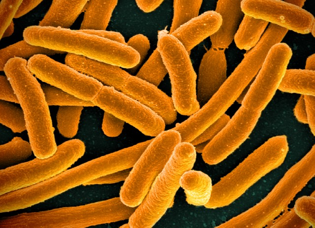 Colorized scanning electron micrograph of Escherichia color, grown in culture and adhered to a cover slop